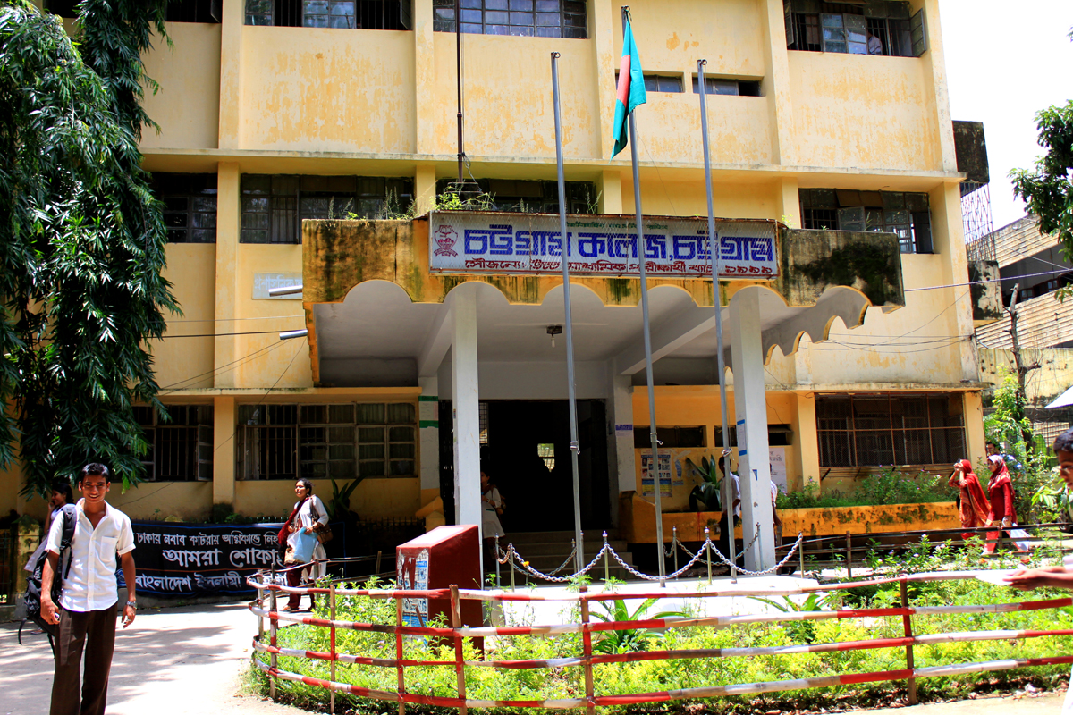 Inside the Chittagong College,Chittagong,Bangladesh